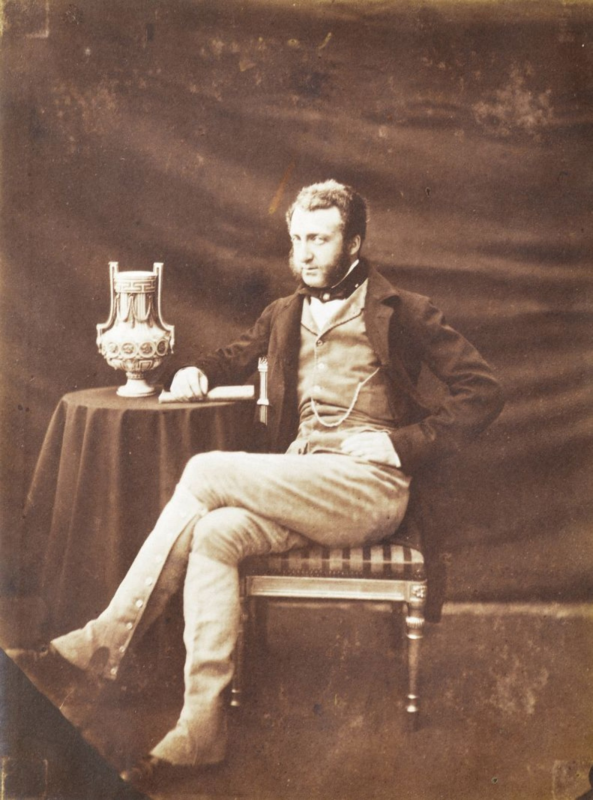 Louis, Duke of Nemours by JOSEPH VIGIER